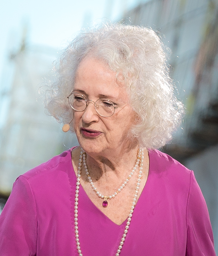 Magdalena Ribbing during the TV broadcast of The Prince Wedding in 2015.